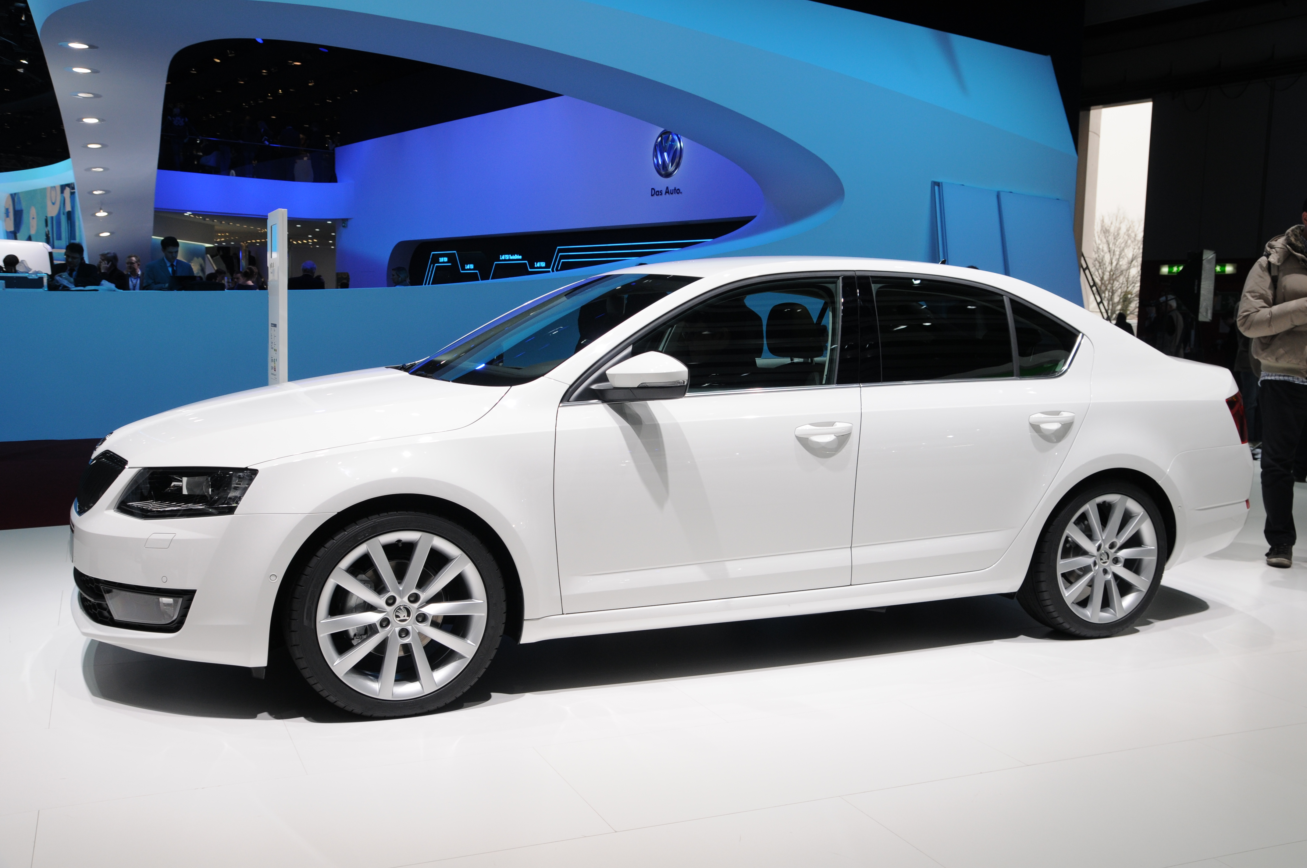 Geneva Motor Show 2013 (photos taken on the first press day)